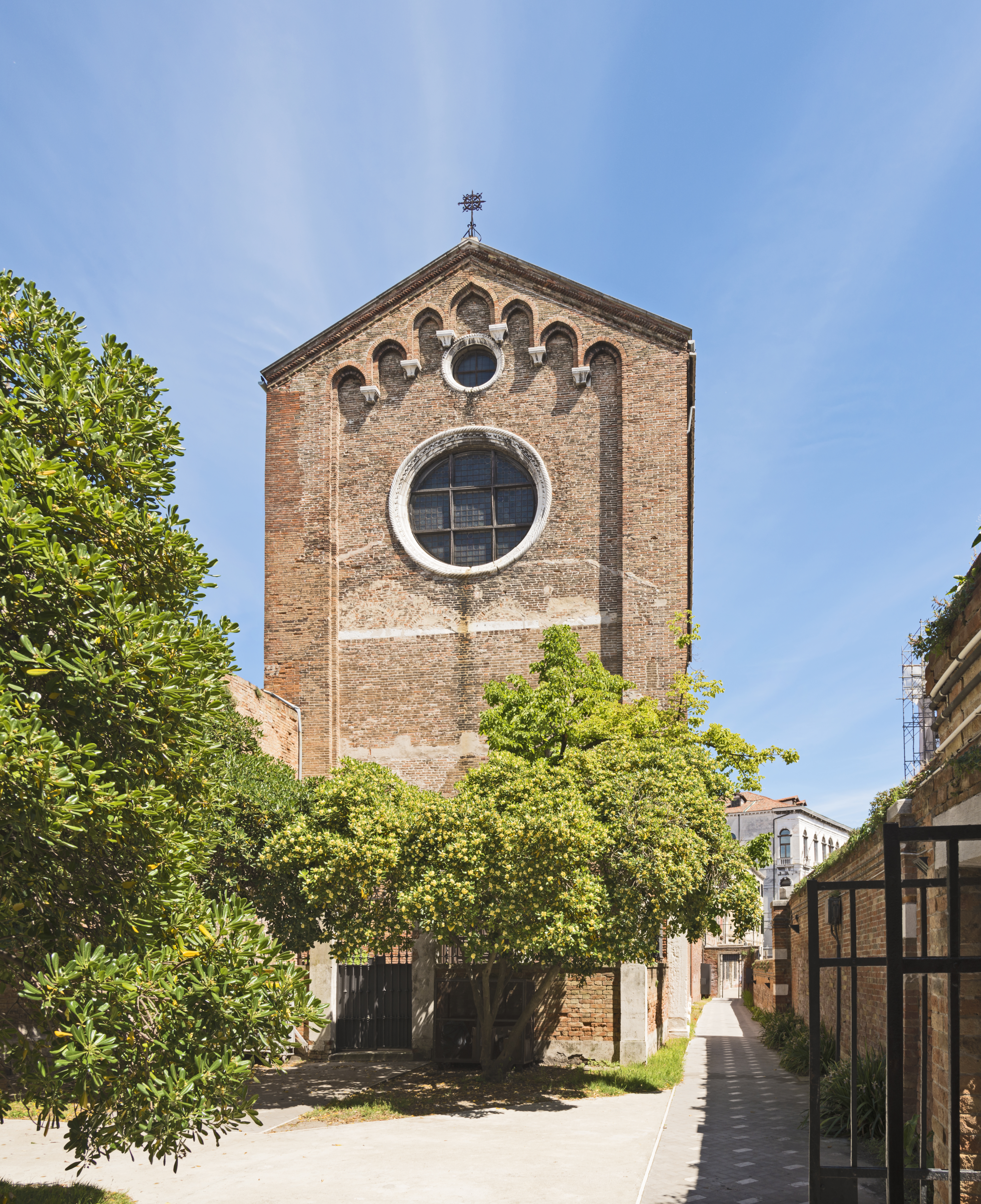 Volto Santo chapel, called Dei Lucchesi, in Venice. Westhern exposure.